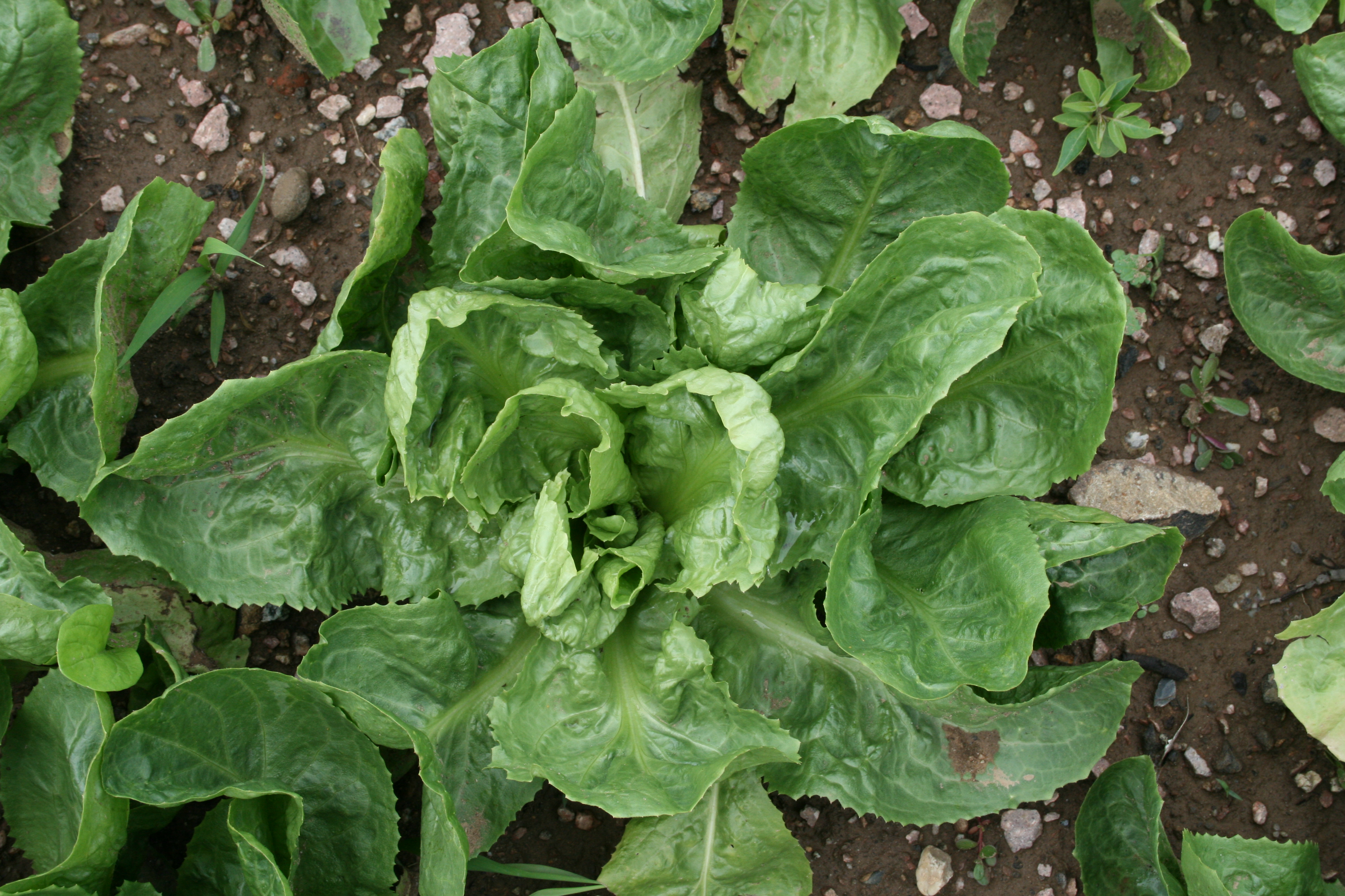 Cichorium